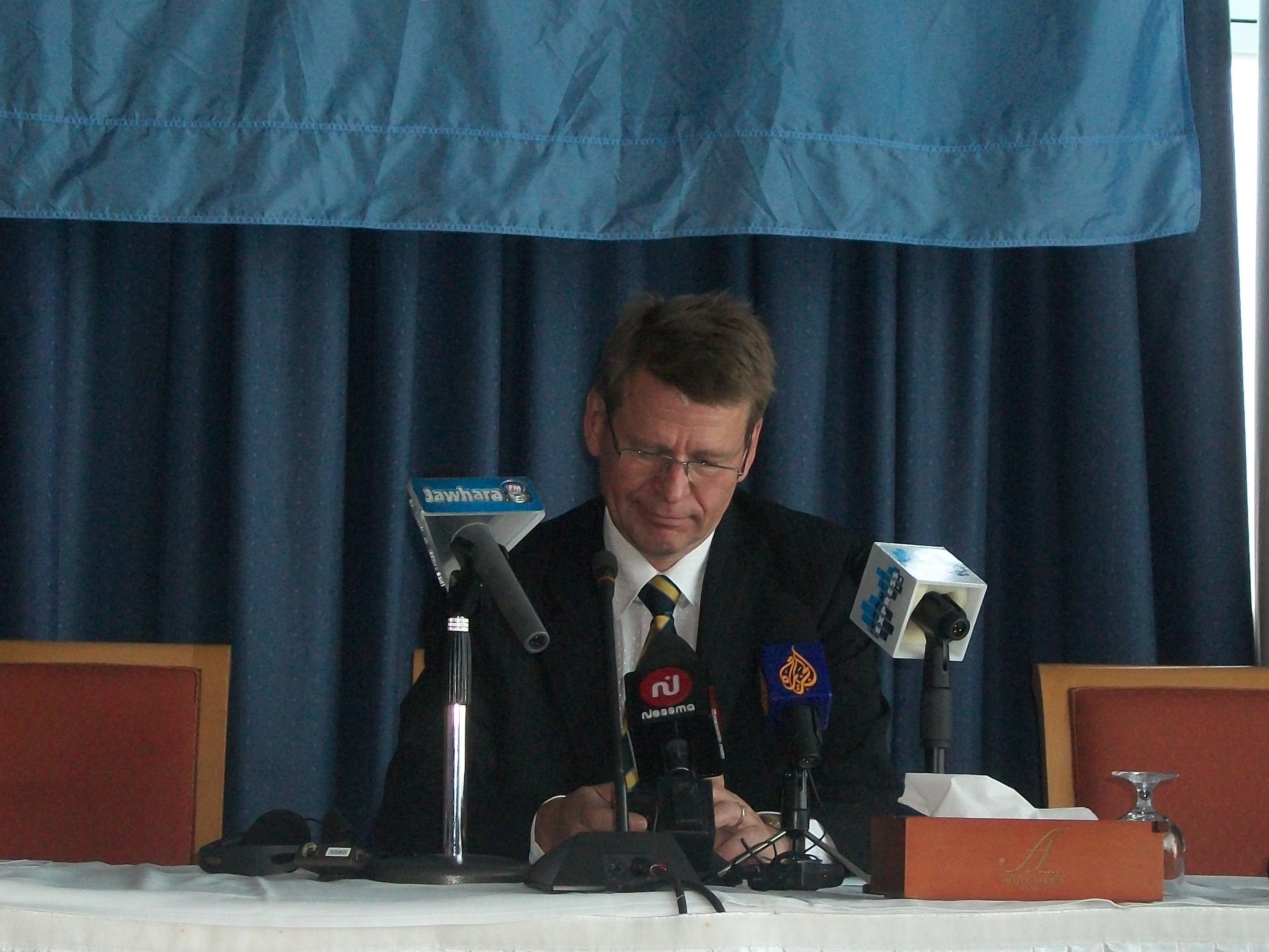 [Monia Ghanmi] UN Special Rapporteur Martin Scheinin urged Tunisia to continue reforms and investigate past human rights abuses.